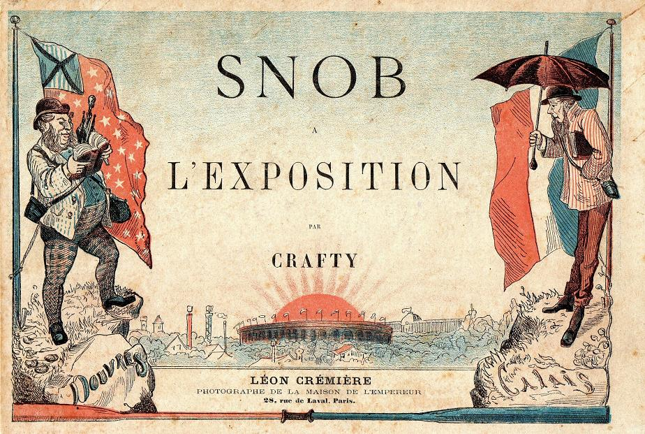 Cover page of the book Snob à l'exposition by Crafty a french caricaturist cover page of the book dated 1867